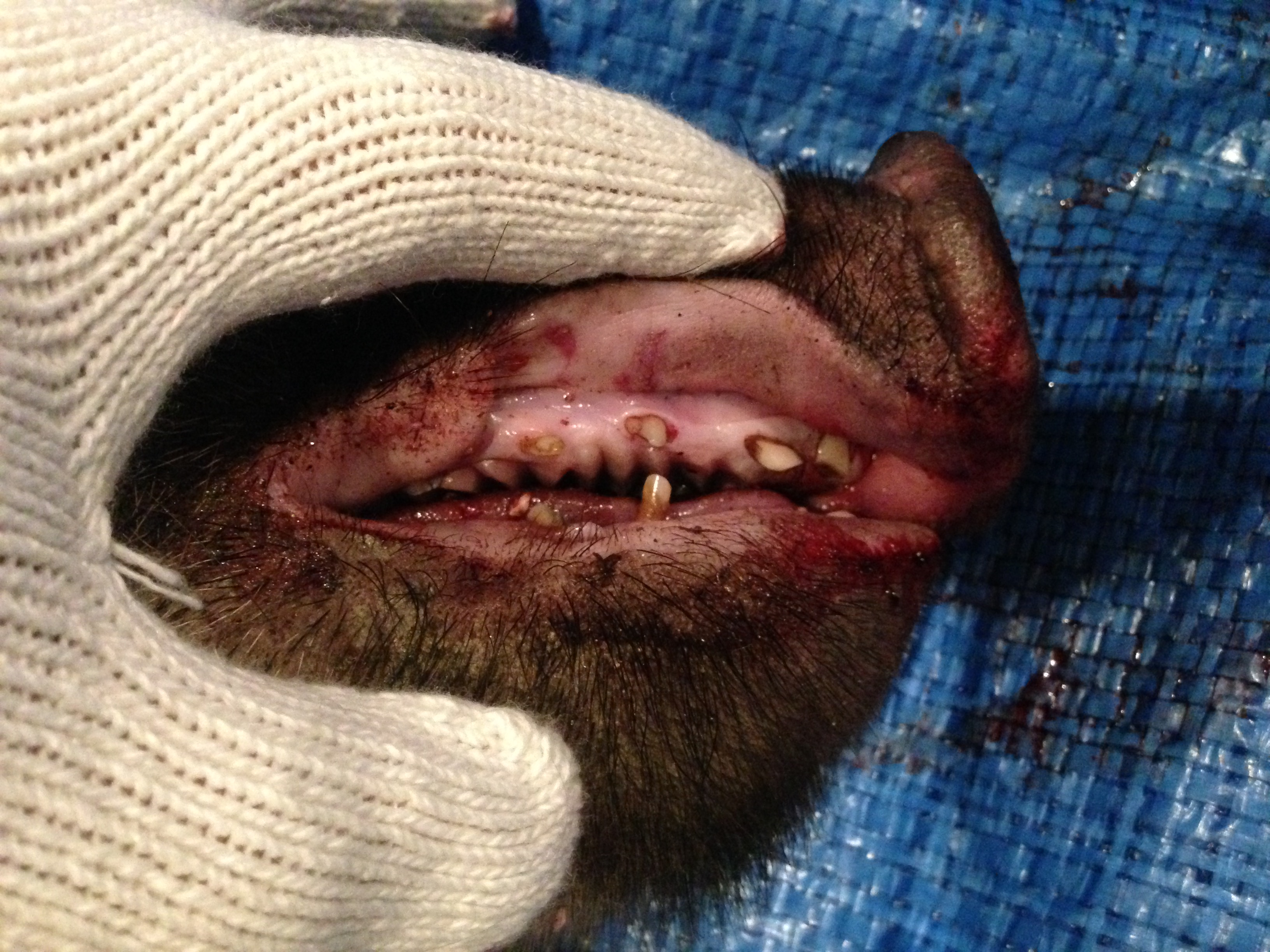 Japanese wild boar / Sus scrofa leucomystax